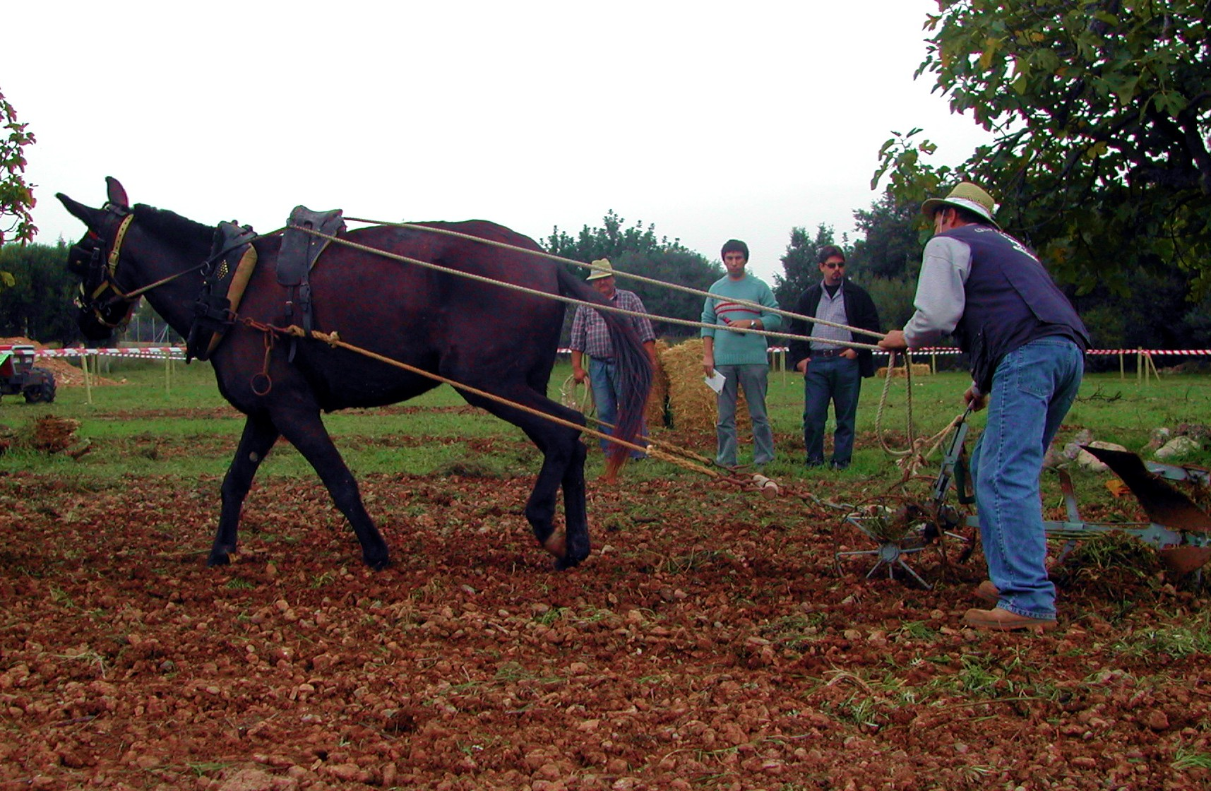 Ploughman with a mule and a wheel plough,Mallorca.